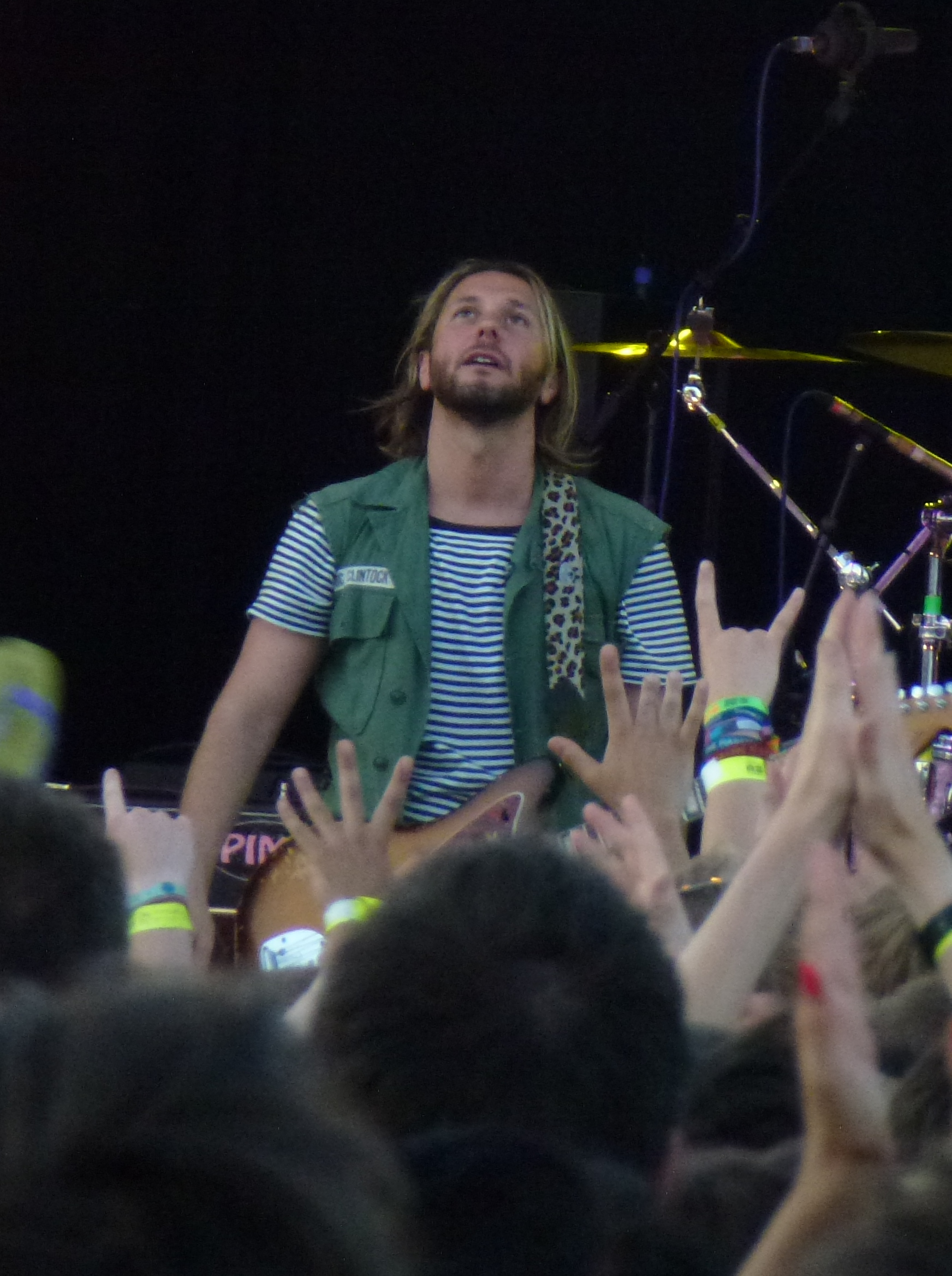 Grant Nicholas during Feeder's performace at Warwick University's Summer Party on 26th June 2011.